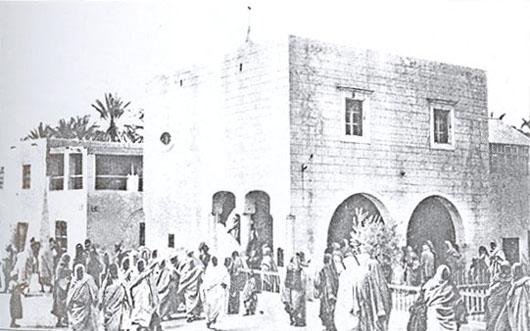 Zliten Municipality hall or Bladya.